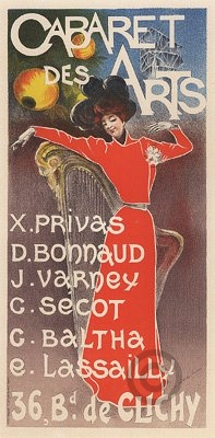 Poster Cabaret des arts